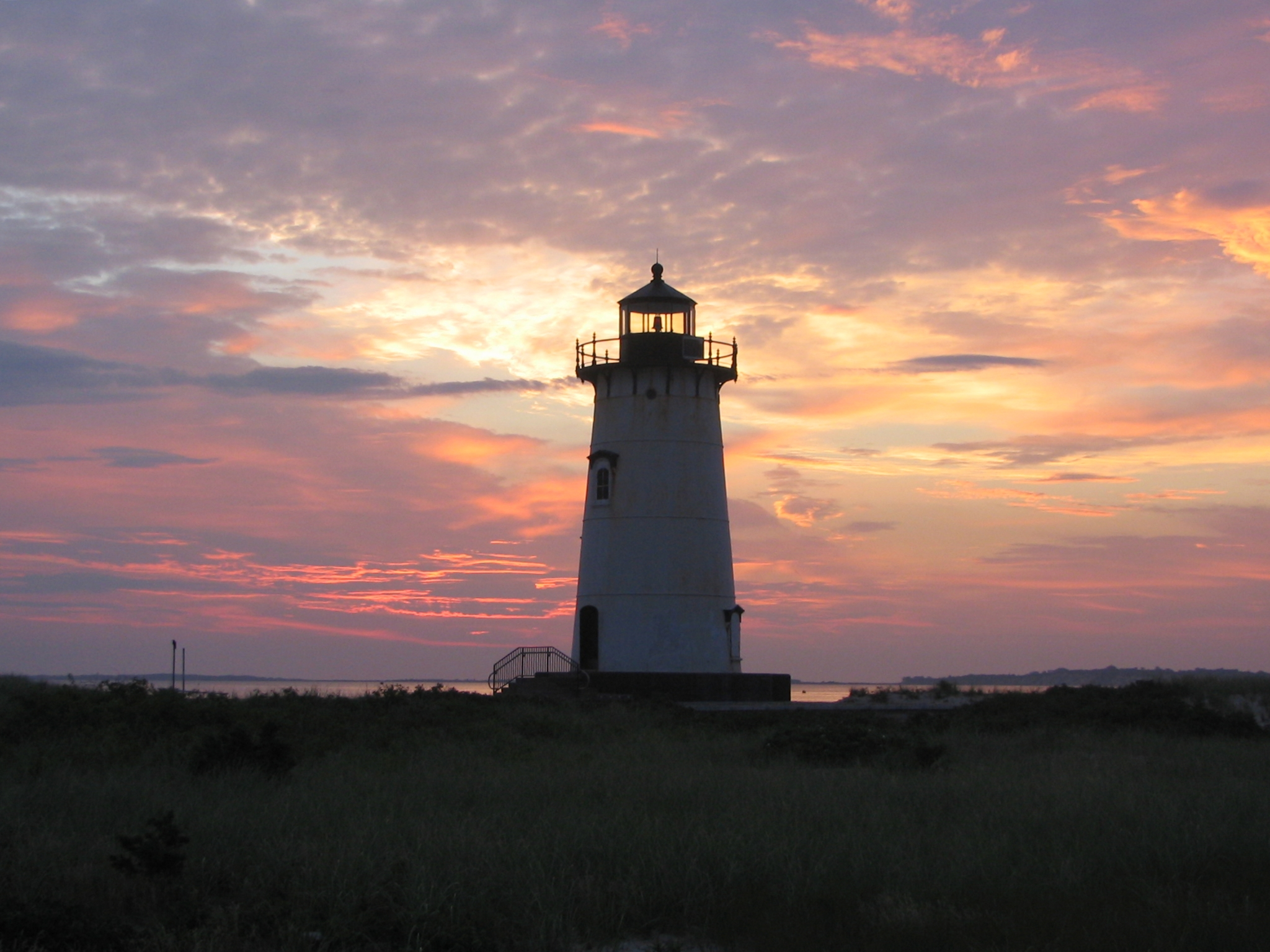 Photo of Edgartown light at dawn, taken in July 2006. This is one of 5 lighthouses on Martha's Vineyard and is located near North Water Street on Edgartown, MA harbor.